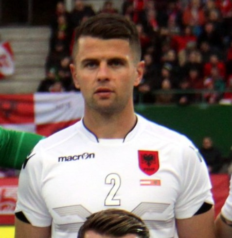 Friendly match – Austria (red shirts) vs. Albania (white shirts) 2–1 (2–0) on 2016-03-26 in Ernst-Happel-Stadion, Vienna – The photo shows the Albanian national football team (from left to right): 1st row: Elseid Hysaj (Napoli), Ergis Kaçe (PAOK Thessaloniki), Amir Abrashi (SC Freiburg), Taulant Xhaka (FC Basel), Ermir Lenjani (FC Nantes); 2nd row: Mergim Mavraj (1. FC Köln), Lorik Cana (Nantes), Bekim Balaj (Rijeka), Etrit Berisha (GK, Lazio), Andi Lila (PAS Giannina) and Ansi Agolli (Qarabağ)